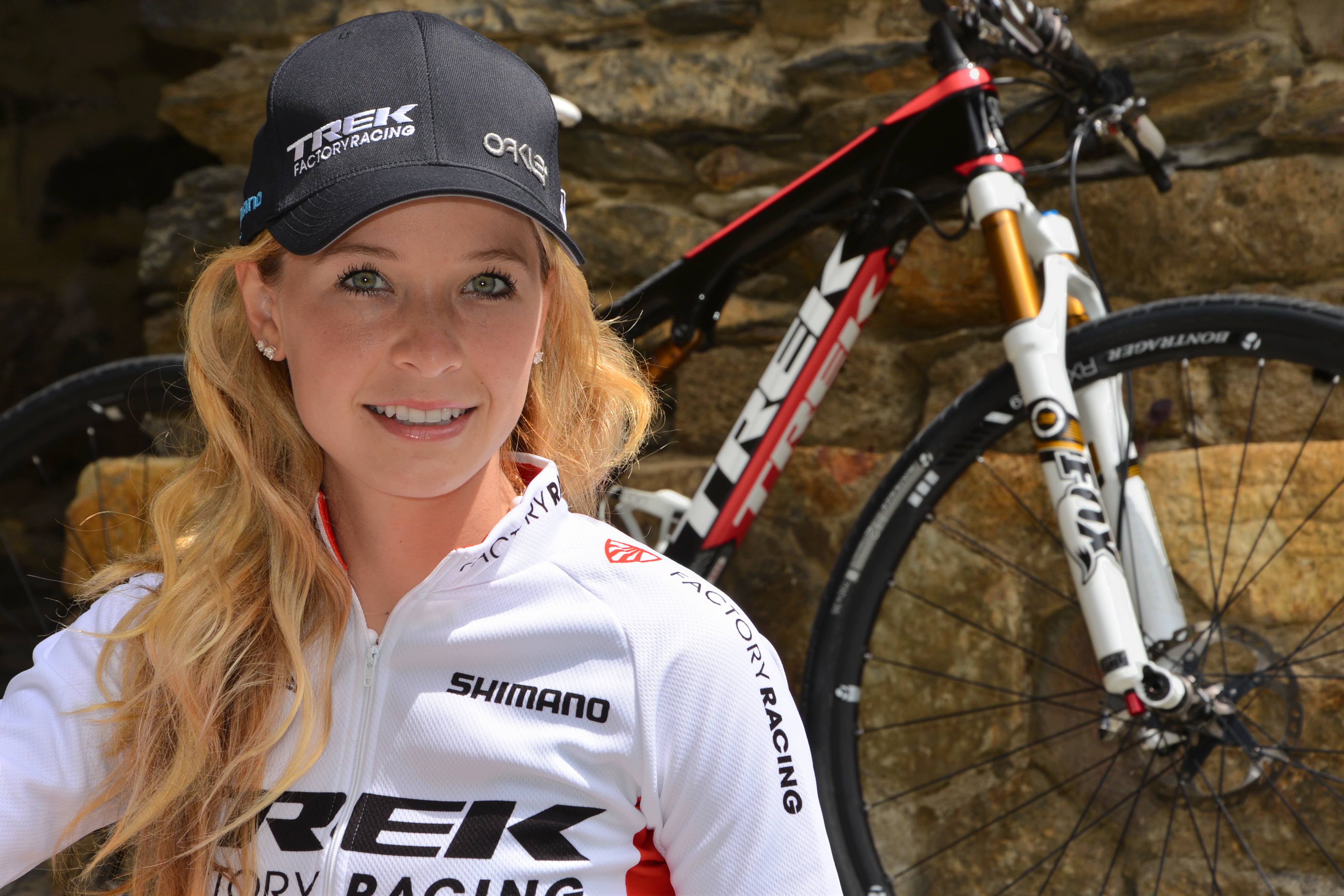 Portrait of Canadian cross-country mountain biker Emily Batty.